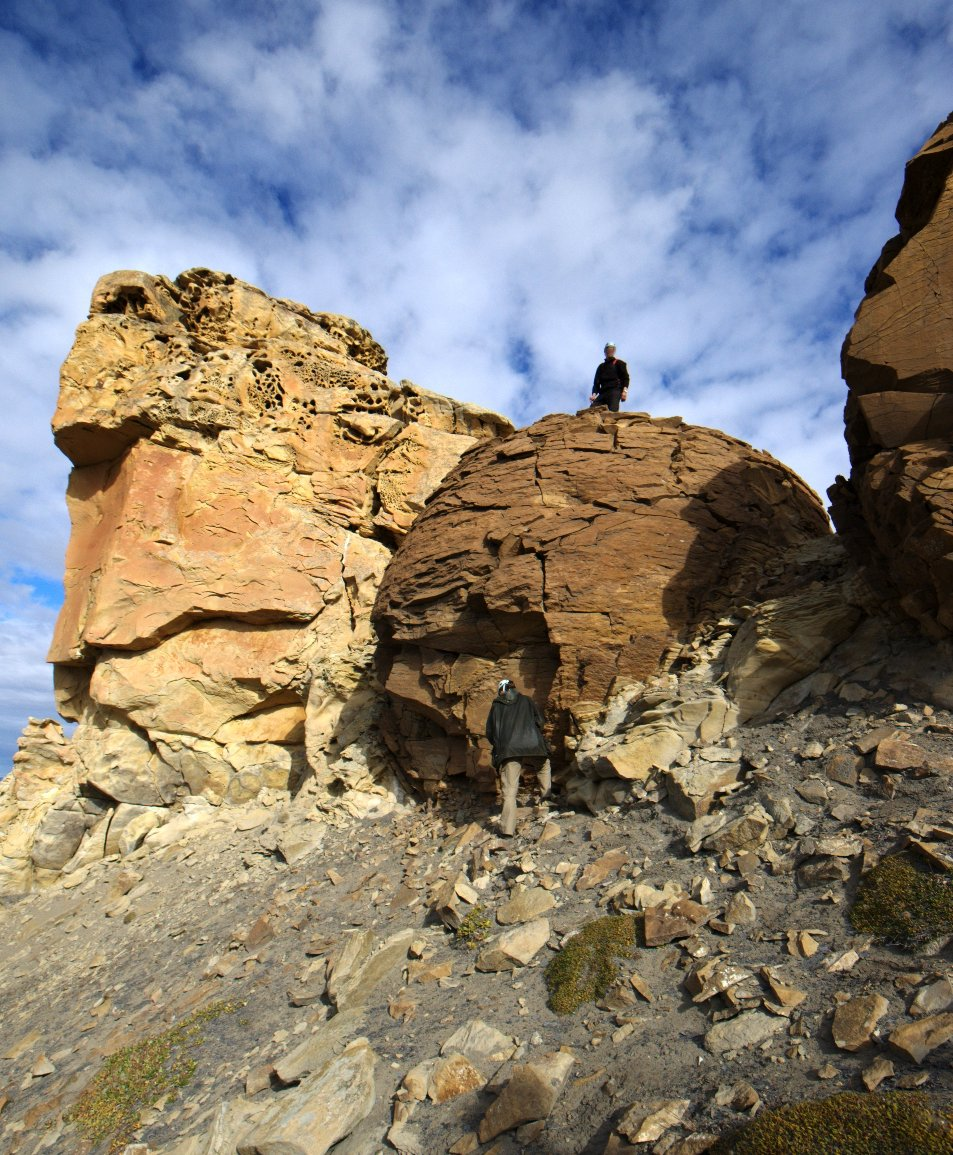 A cannonball concretion in Jameson Land, East Greenland